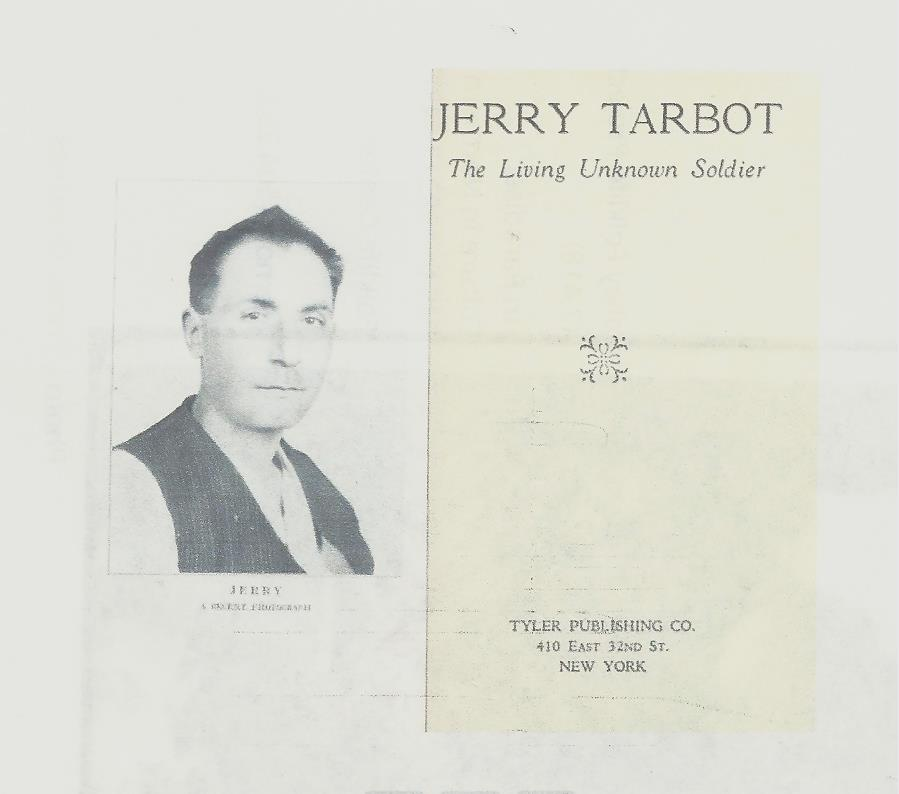 Jerry Tarbot so called "Living Unknown Soldier"